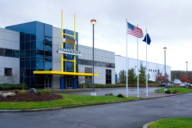 Picture of the main entrance to SolarWorld's facility in Hillsboro, Oregon.